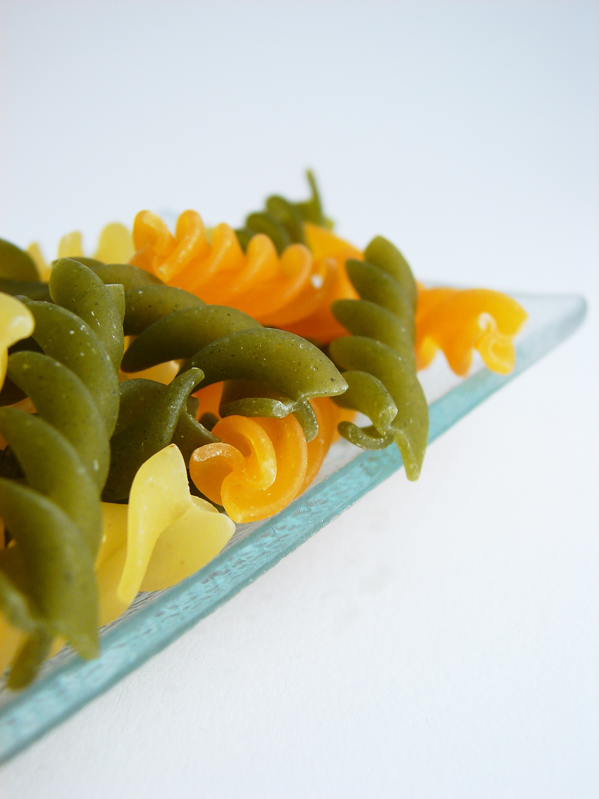 Fusilli